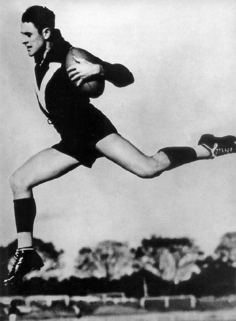 Photohraph of Australian rules footballer Haydn Bunton Sr (1911-1955).